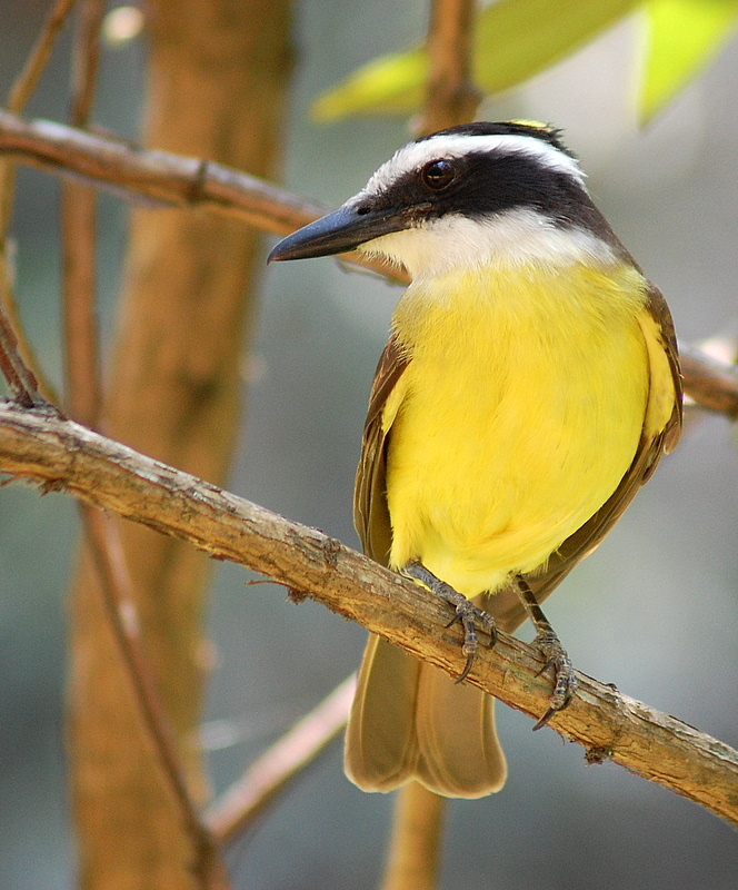 A Great Kiskadee (Pitangus sulphuratus)